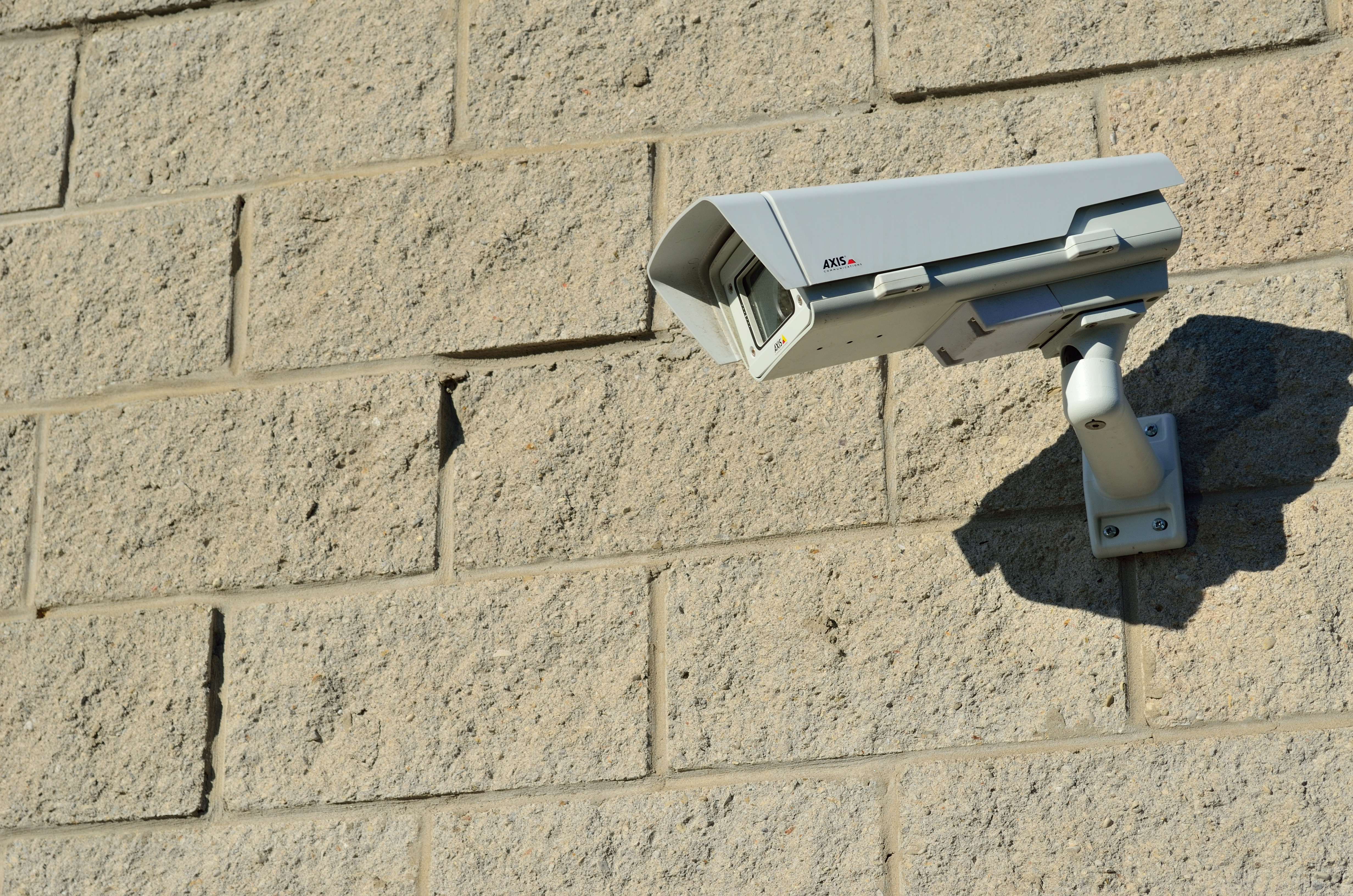 An Axis CCTV network camera. (P13 series)